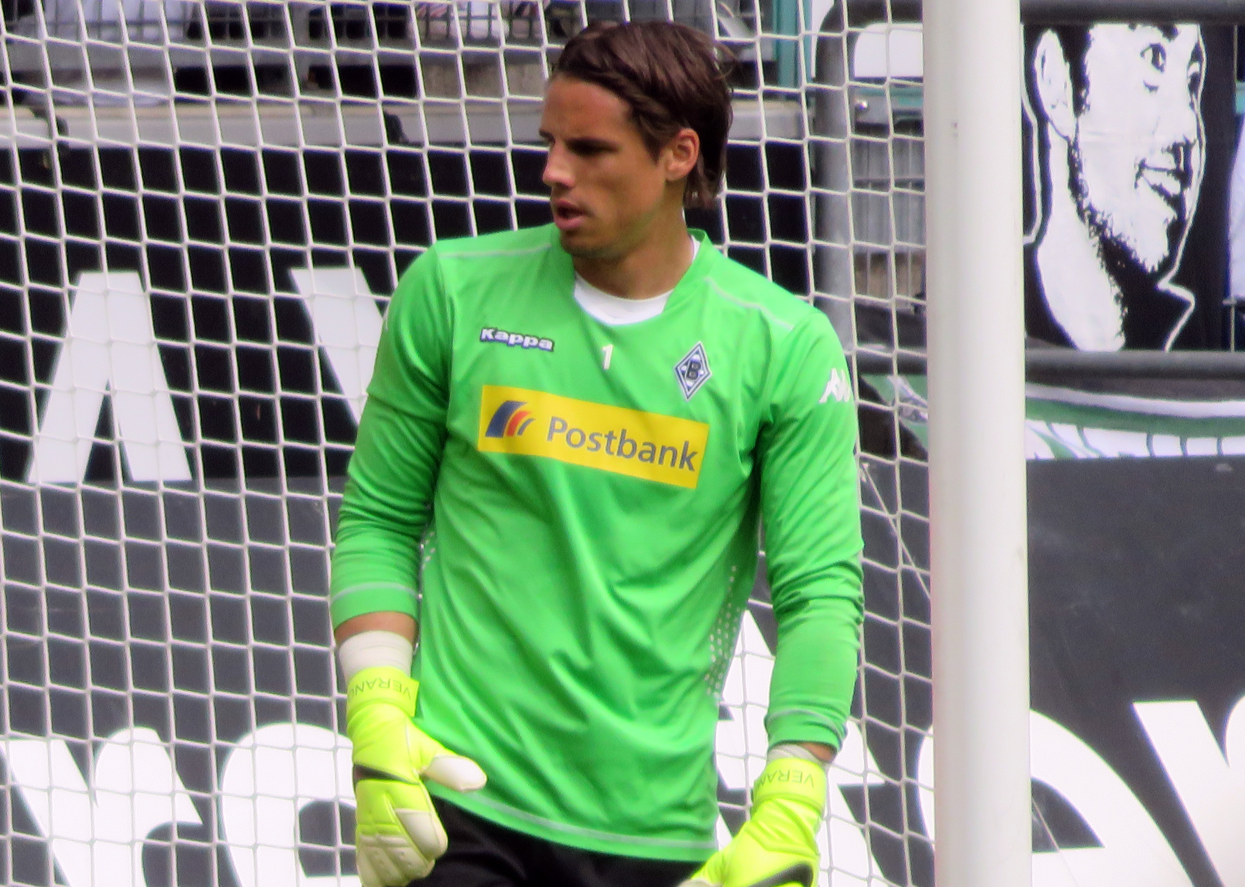 Yann Sommer